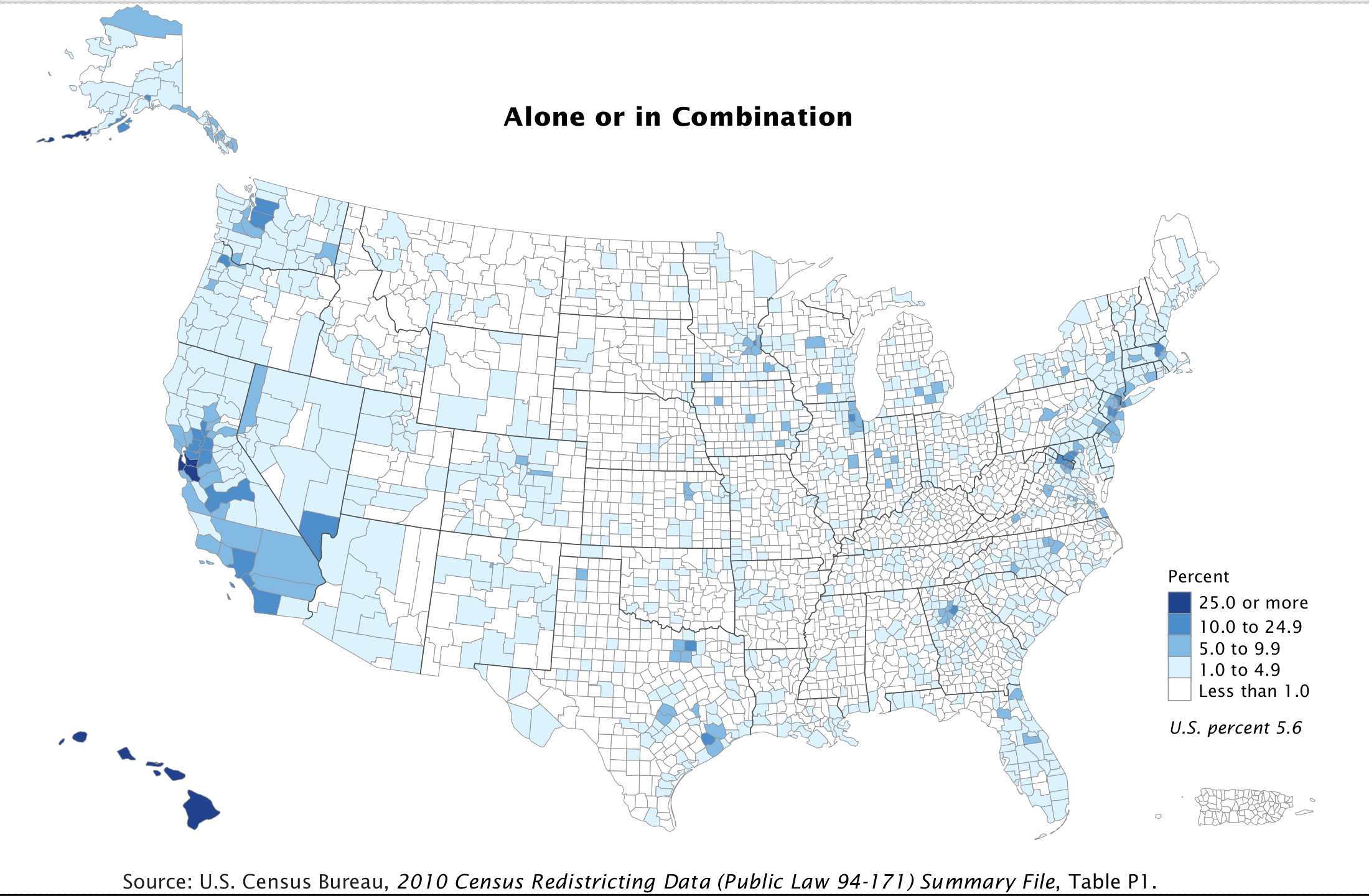 Percentage Asian American by county, 2010 Census